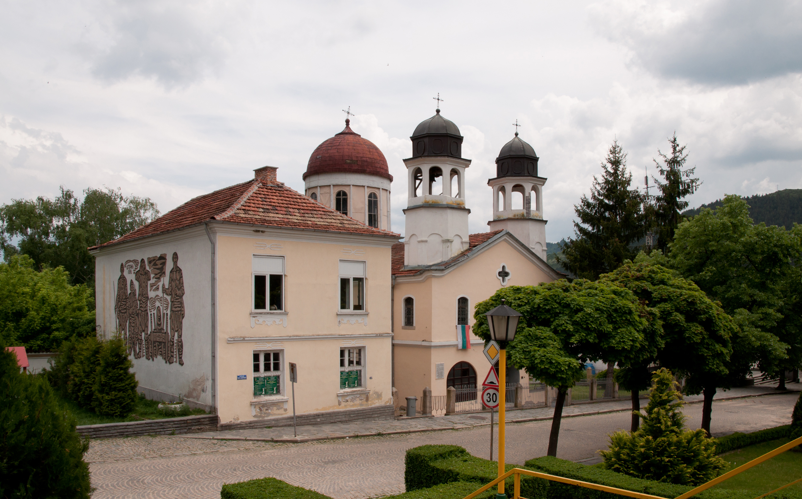 Dormition of the Theotokos Church in the town of Klisura, Bulgaria.